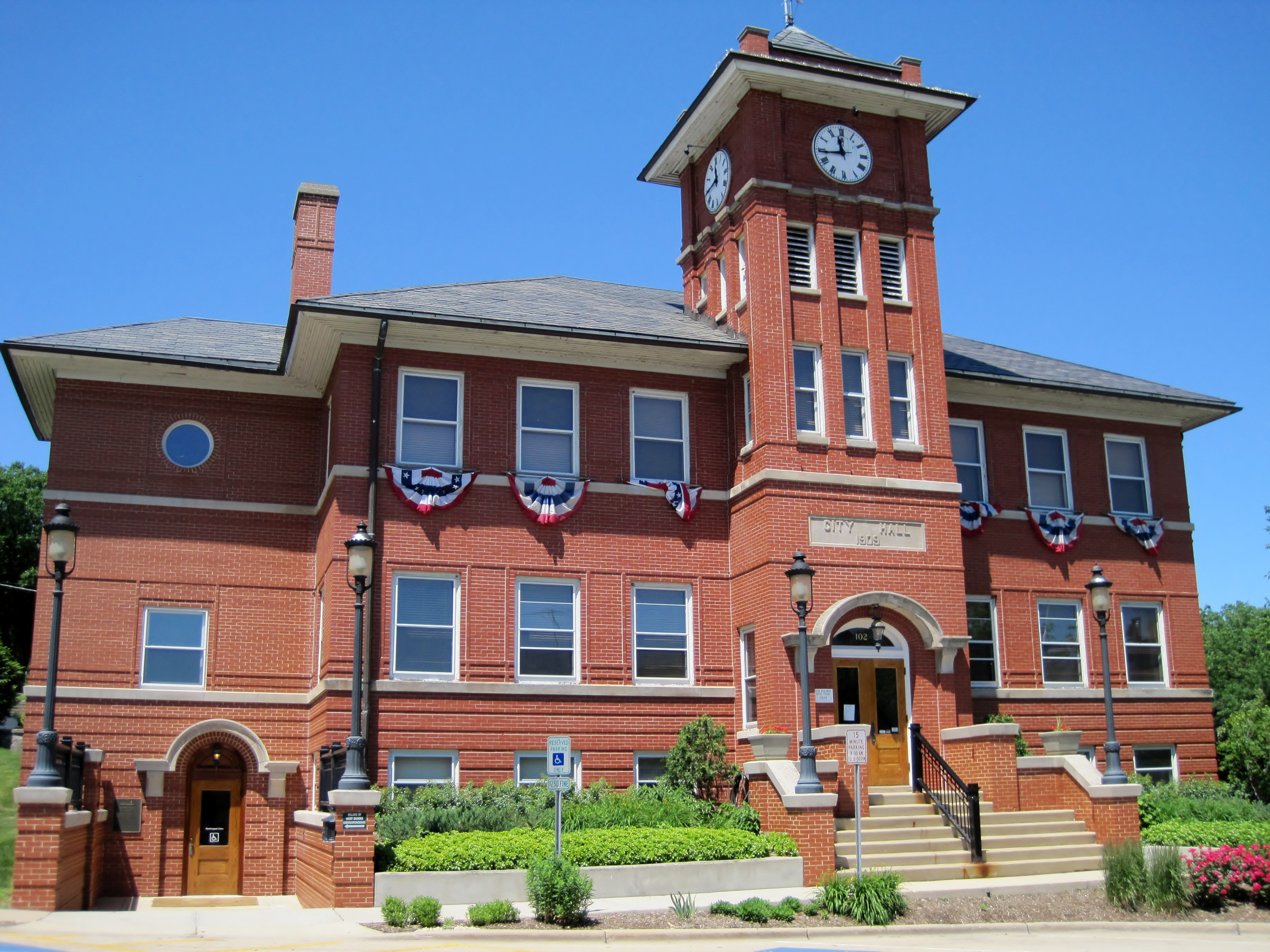 West Dundee Village Hall in the Dundee Township Historic District in West Dundee (1909). West Dundee was founded in 1834 by Jesse H. Newman. The town's name was suggested by Alexander Gardiner, a native of Scotland. The town of West Dundee was incorporated in 1867. Ethnic differences separated West and East Dundee--Scottish and English in the West, German in the East--so the two towns went their separate ways in the 1860s.